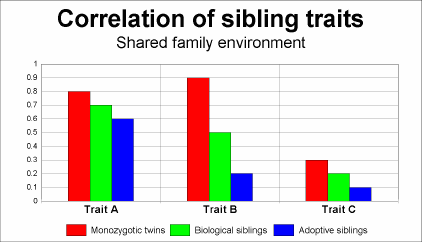 Chart illustrating MZ/DZ/adoptive sibling trait correlation